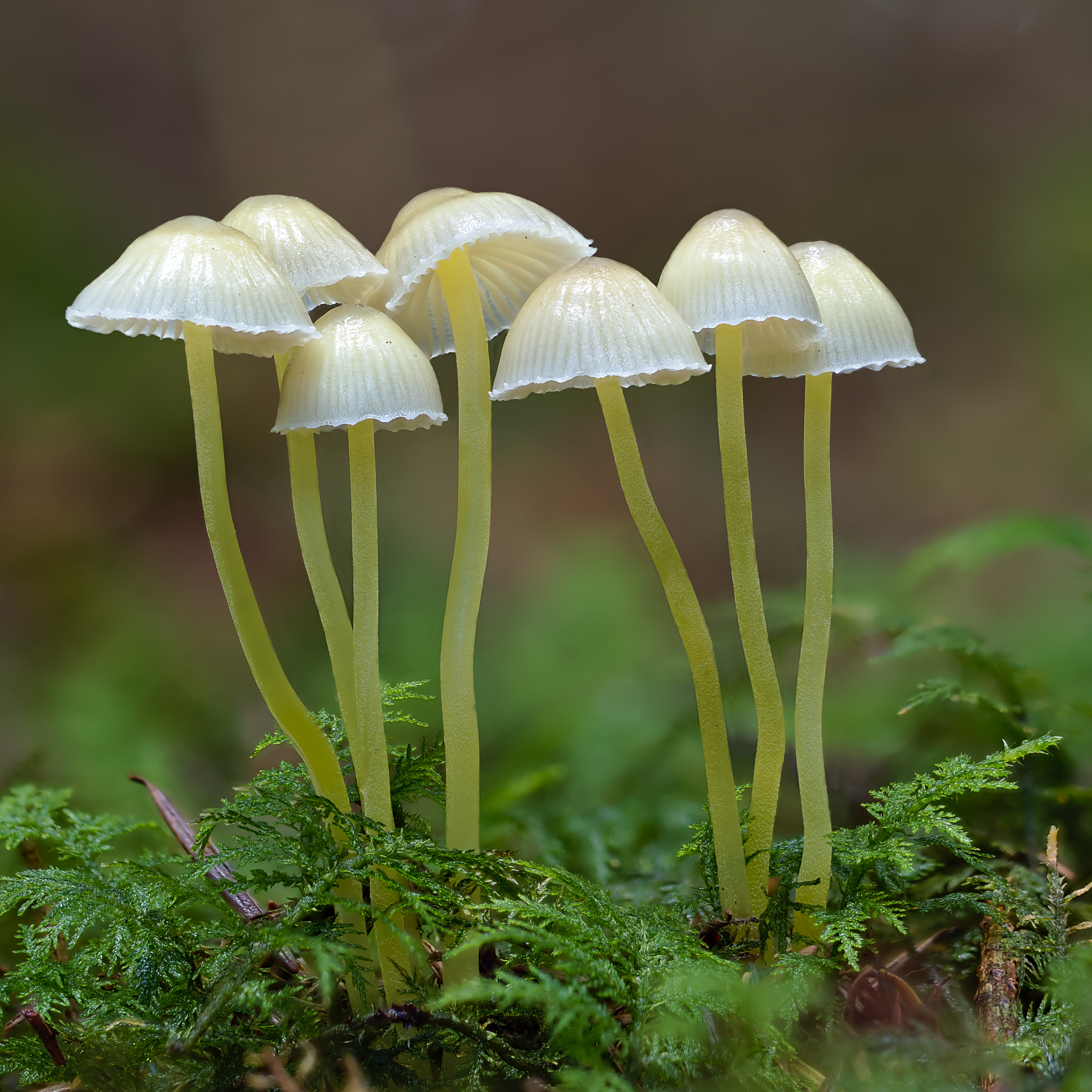 Mycena epipterygia. La Maladrie, Arrondissement of Neufchâteau, Wallonia